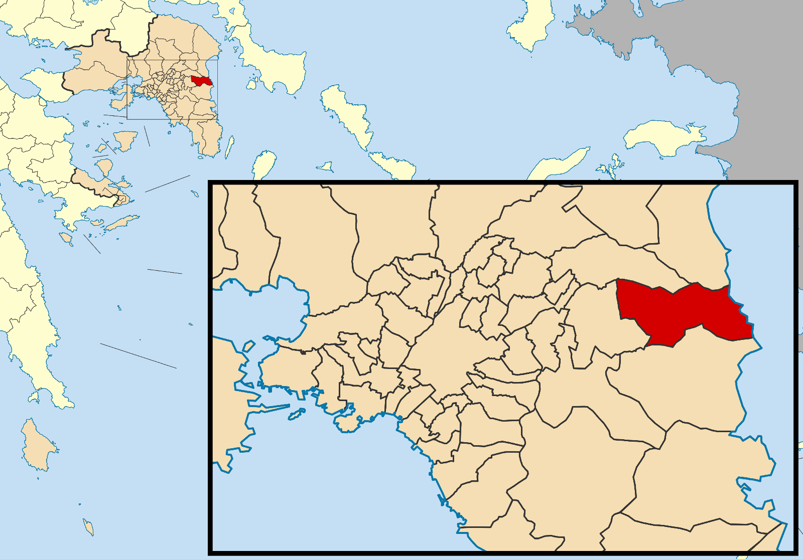 Locator map for Rafina-Pikermi municipality in Greek region Attica (2011)